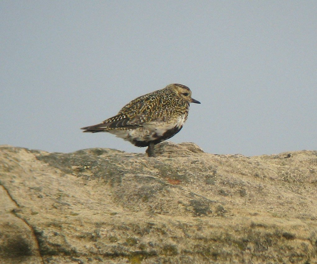 European Golden Plover Pluvialis apricaria, adult moulting out of summer plumage, St Mary's Island, Northumberland, UK